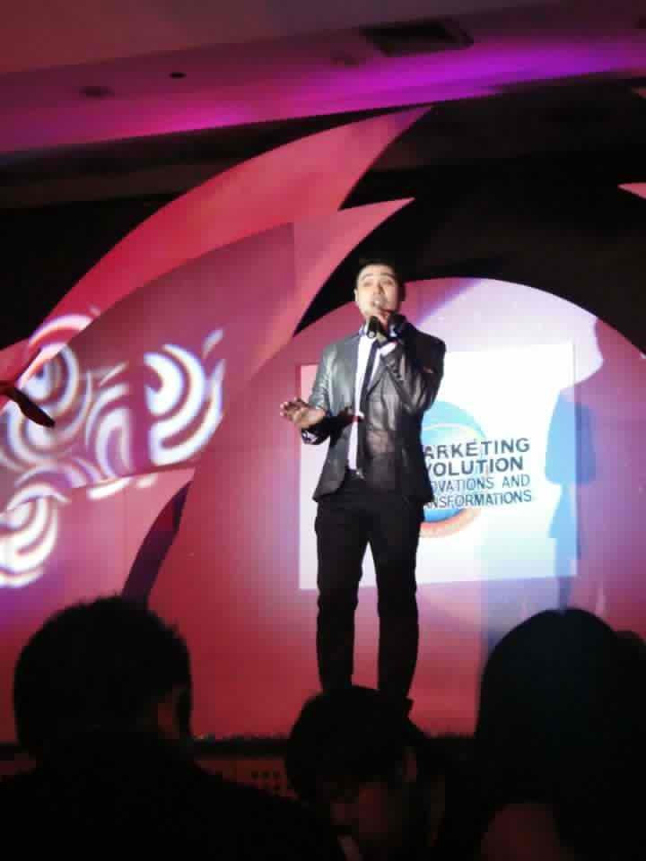 King performing at the 2012 Philippine Marketing Association Anniversary